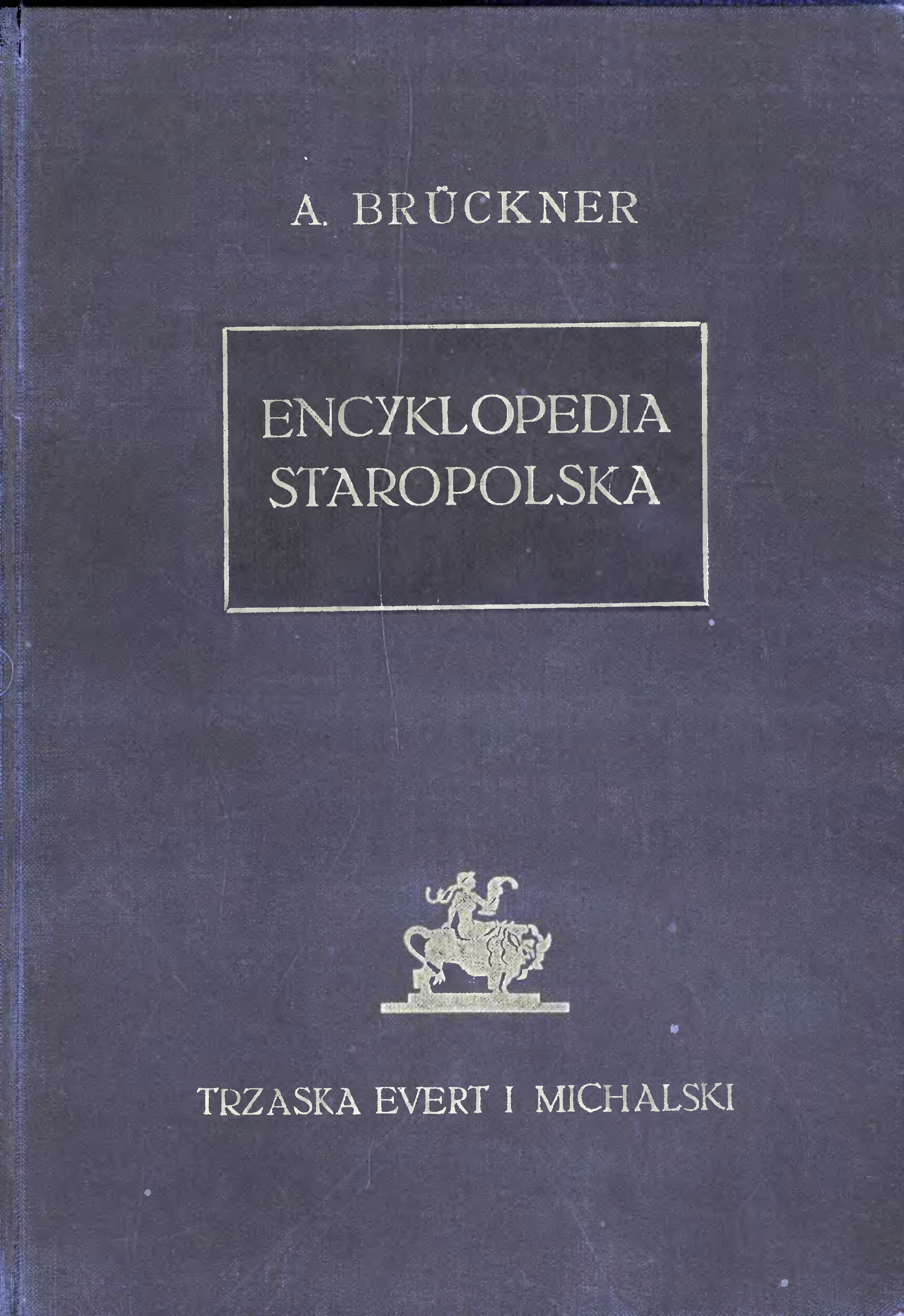 "Encyklopedia staropolska" Aleksander Brückner